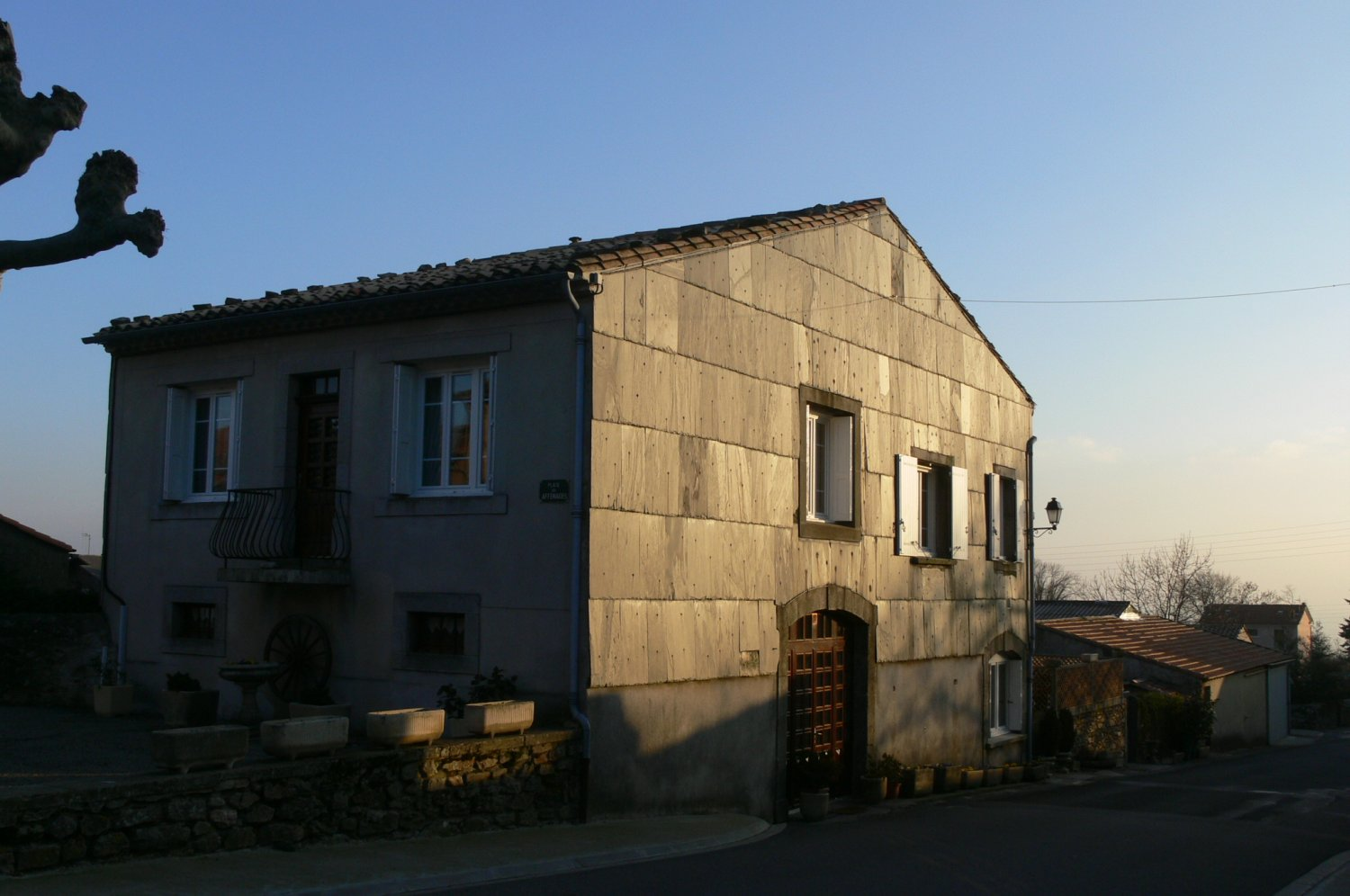 Slate covered-house fronts in Saint-Denis, Aude, France. It's a protection against horizontal rain.